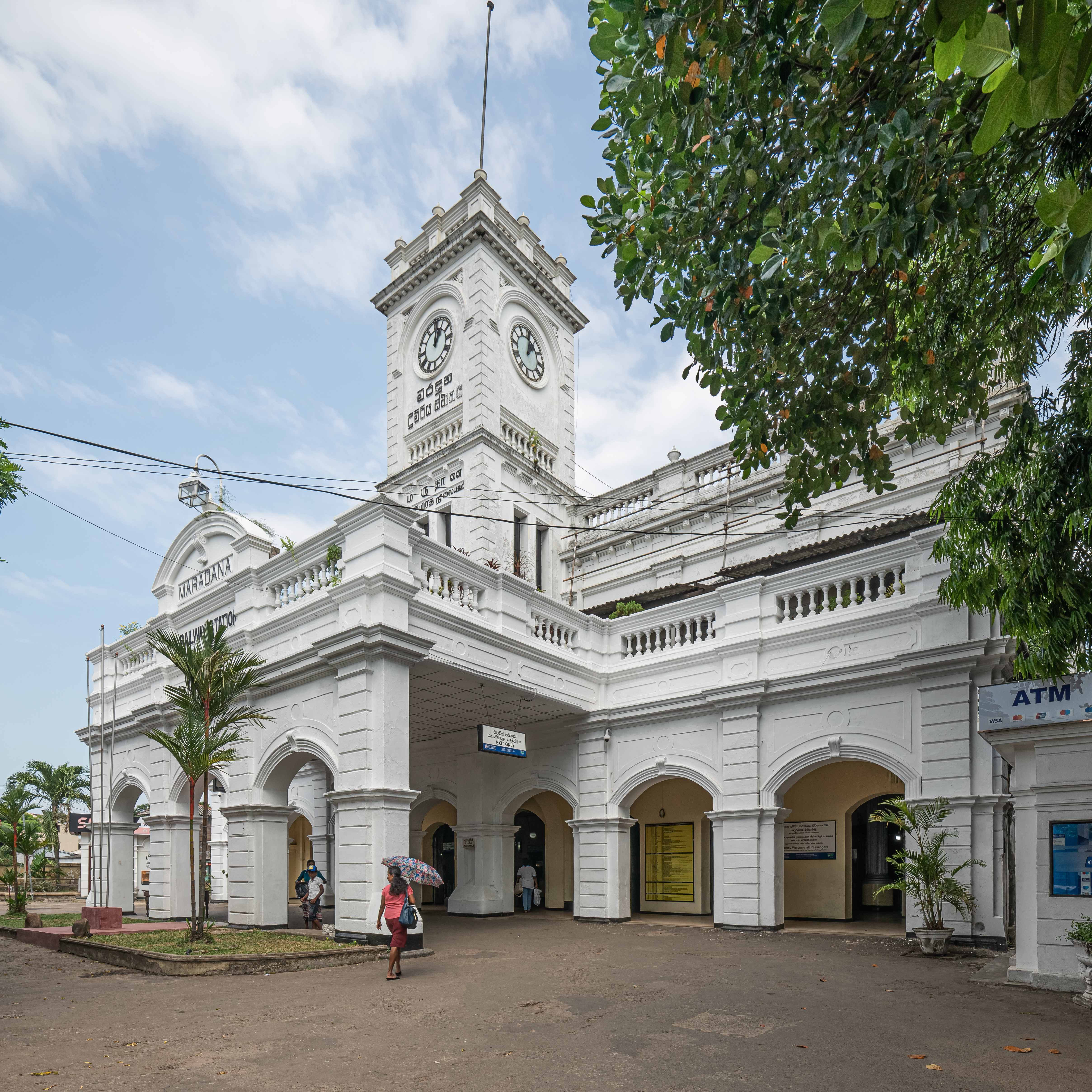 Maradana railway station in Colombo, Sri Lanka: station building